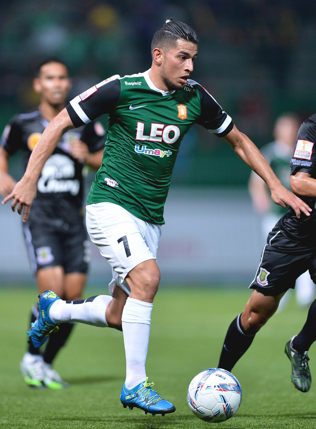 Ariel Rodríguez, Costa Rican footballer.